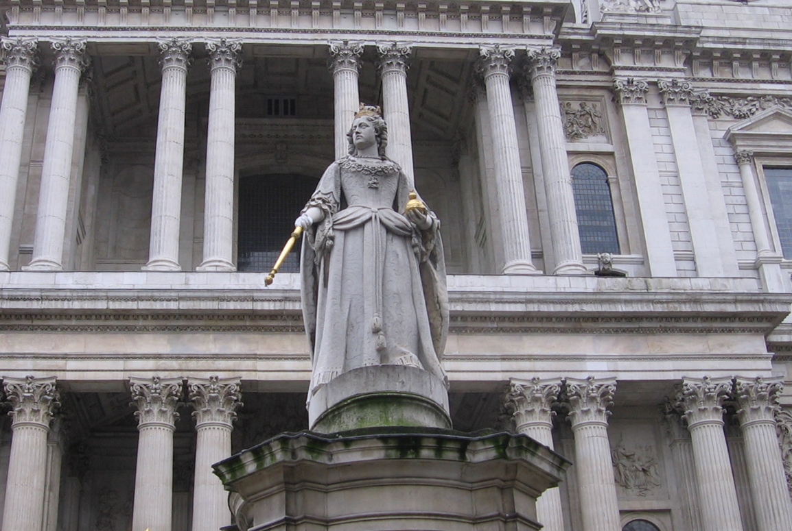 Statue of Queen Anne of Great Britain, St. Paul's Cathedral, London